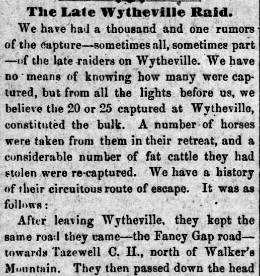 This is the beginning of a July 31, 1863 newspaper article (Abingdon Virginian) about a raid made in Wytheville, Virginia, by Union troops.